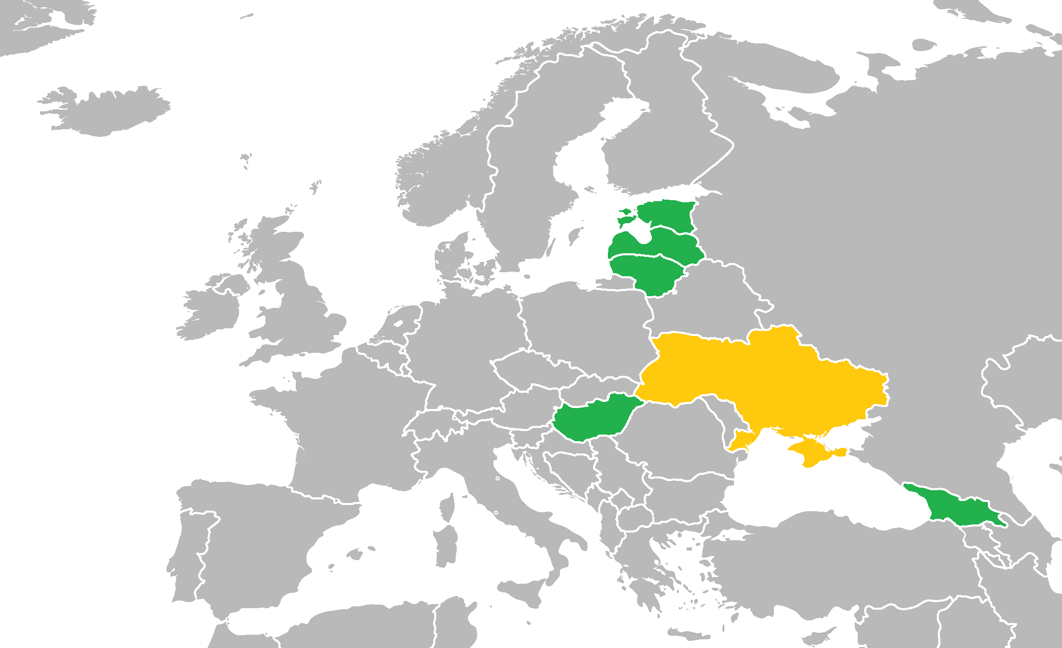 Інавгурація_Володимира_Зеленського